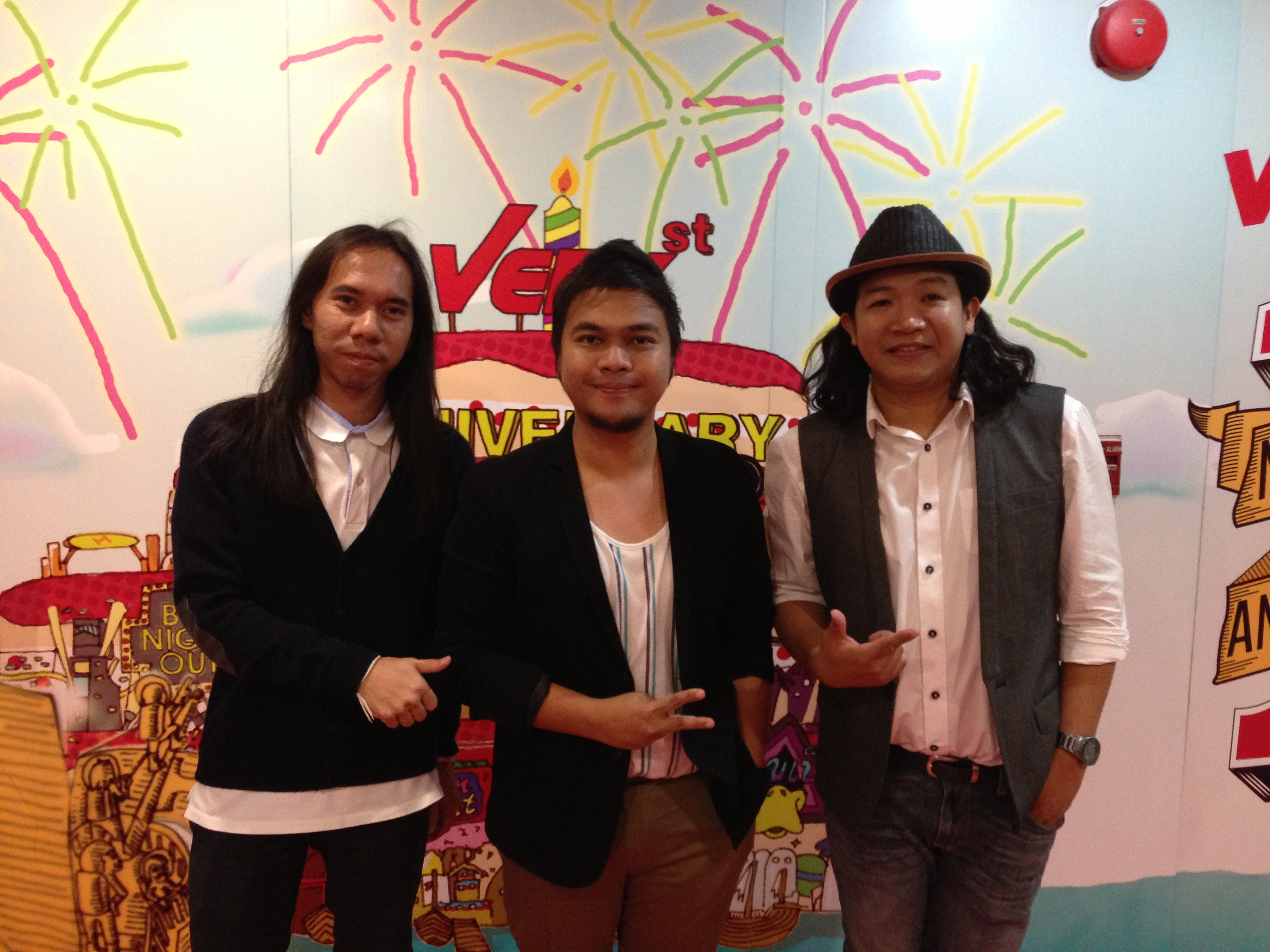 Whatchalawalee at VERY TV